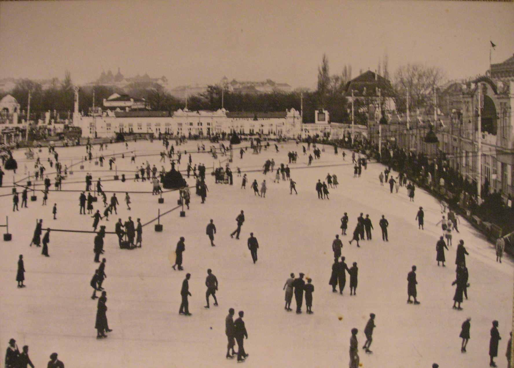 Ice-skating ring of the Vienna Eislauf-Verein at Heumarkt, Vienna, next to the Stadtpark.